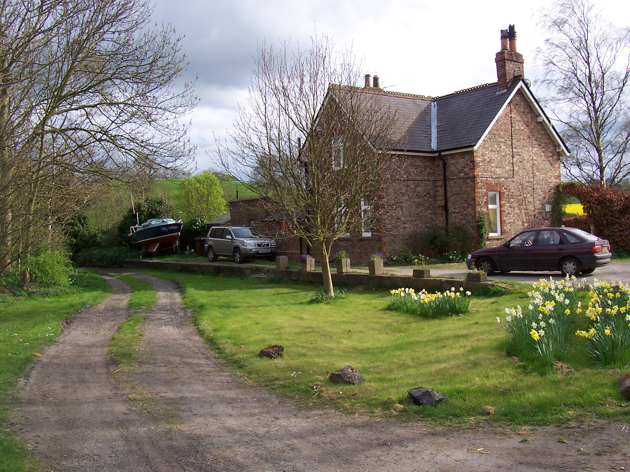 The former station buildings at North Grimston, North Yorkshire.